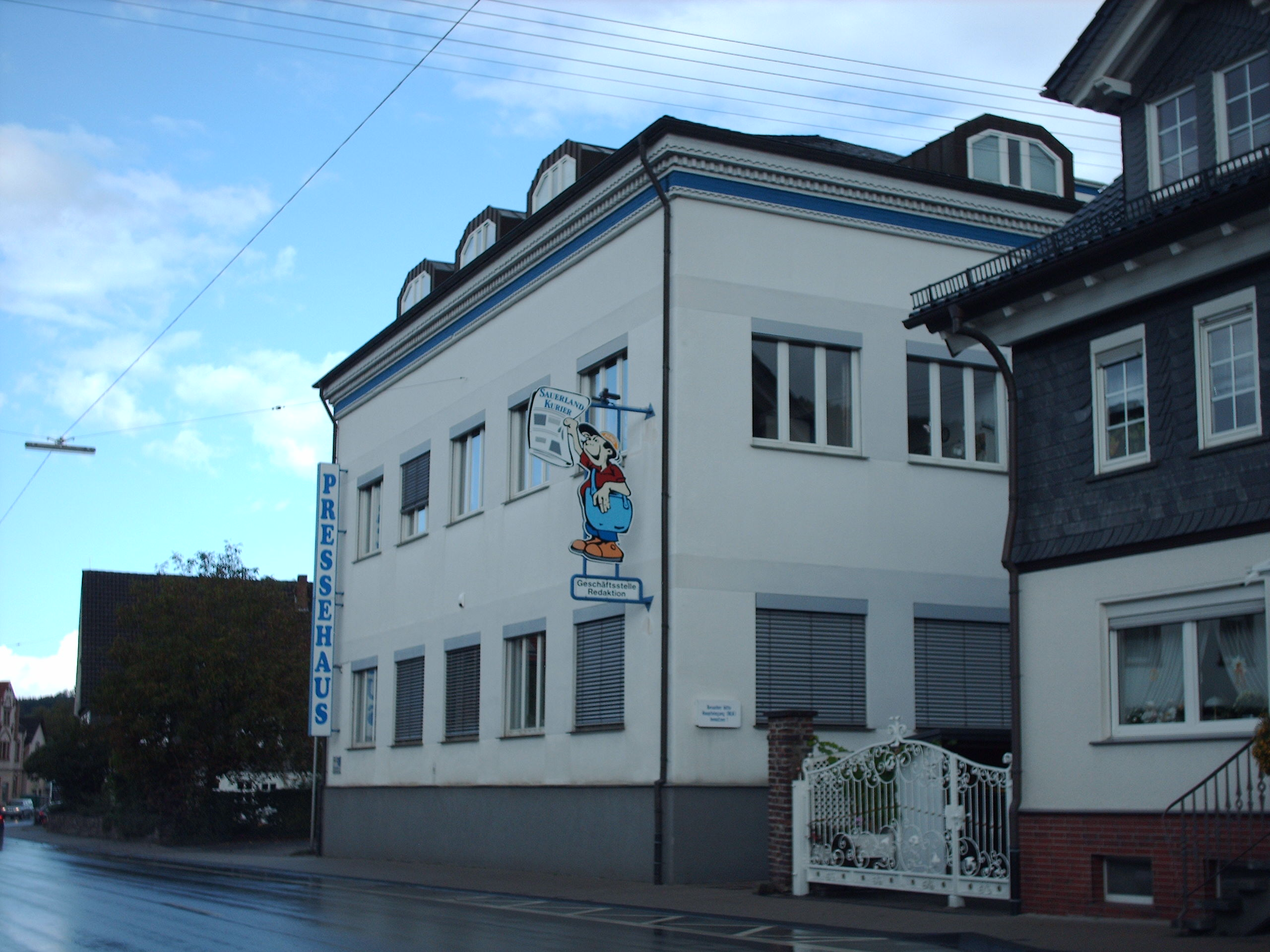 Sauerlandkurier, Lennestadt, Germany check usage